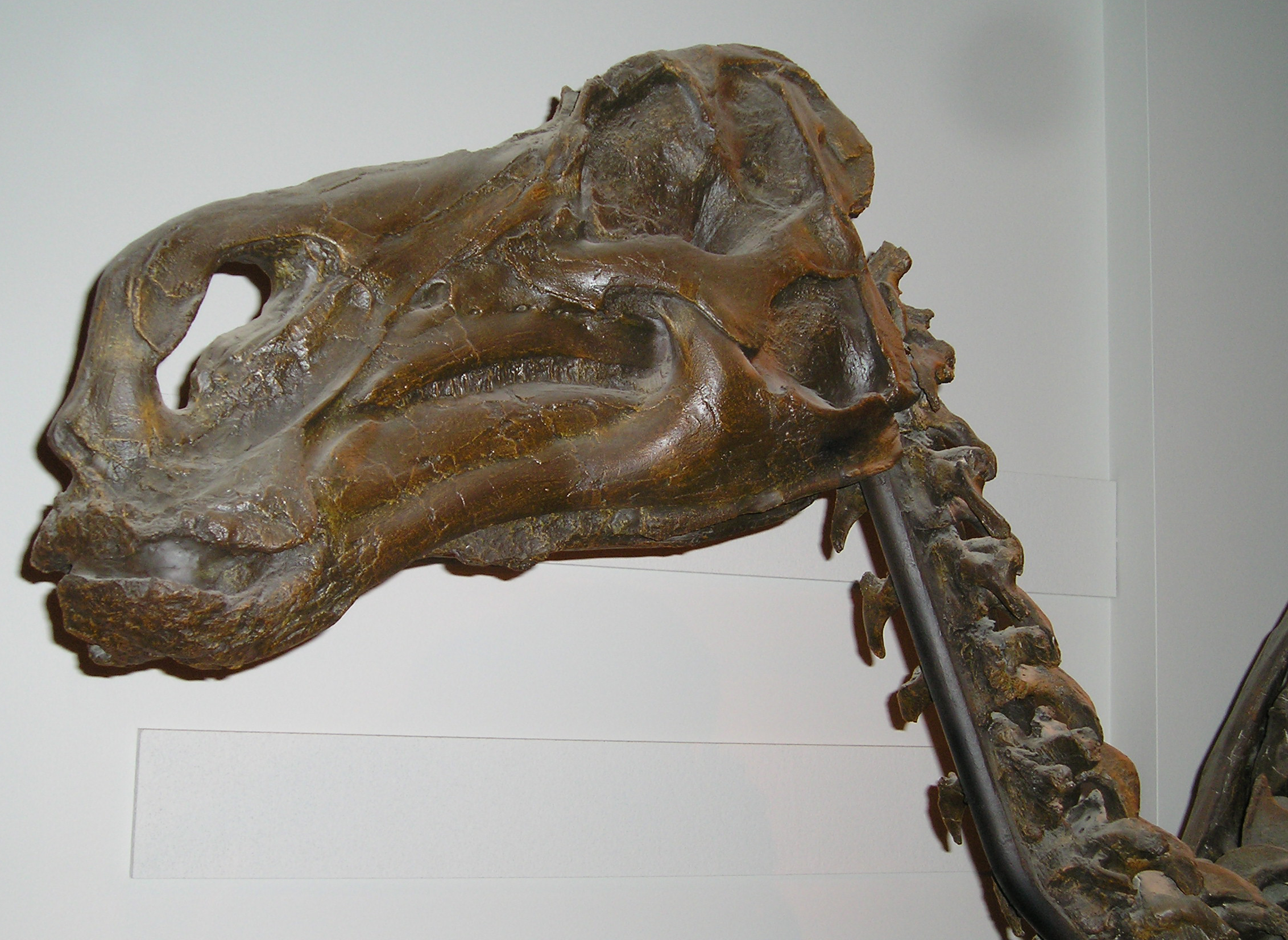 Head of an adult Maiasaur at the Royal Ontario Museum, Toronto.